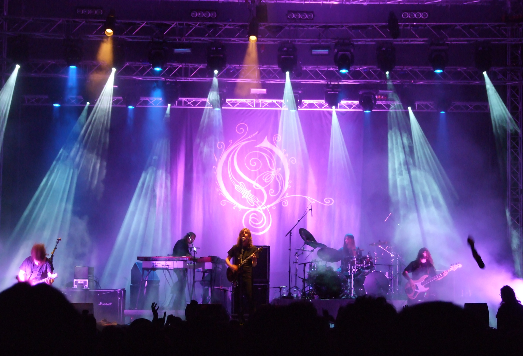 The Swedish metal band Opeth at Kavarna Rock Fest 2011, Bulgaria.